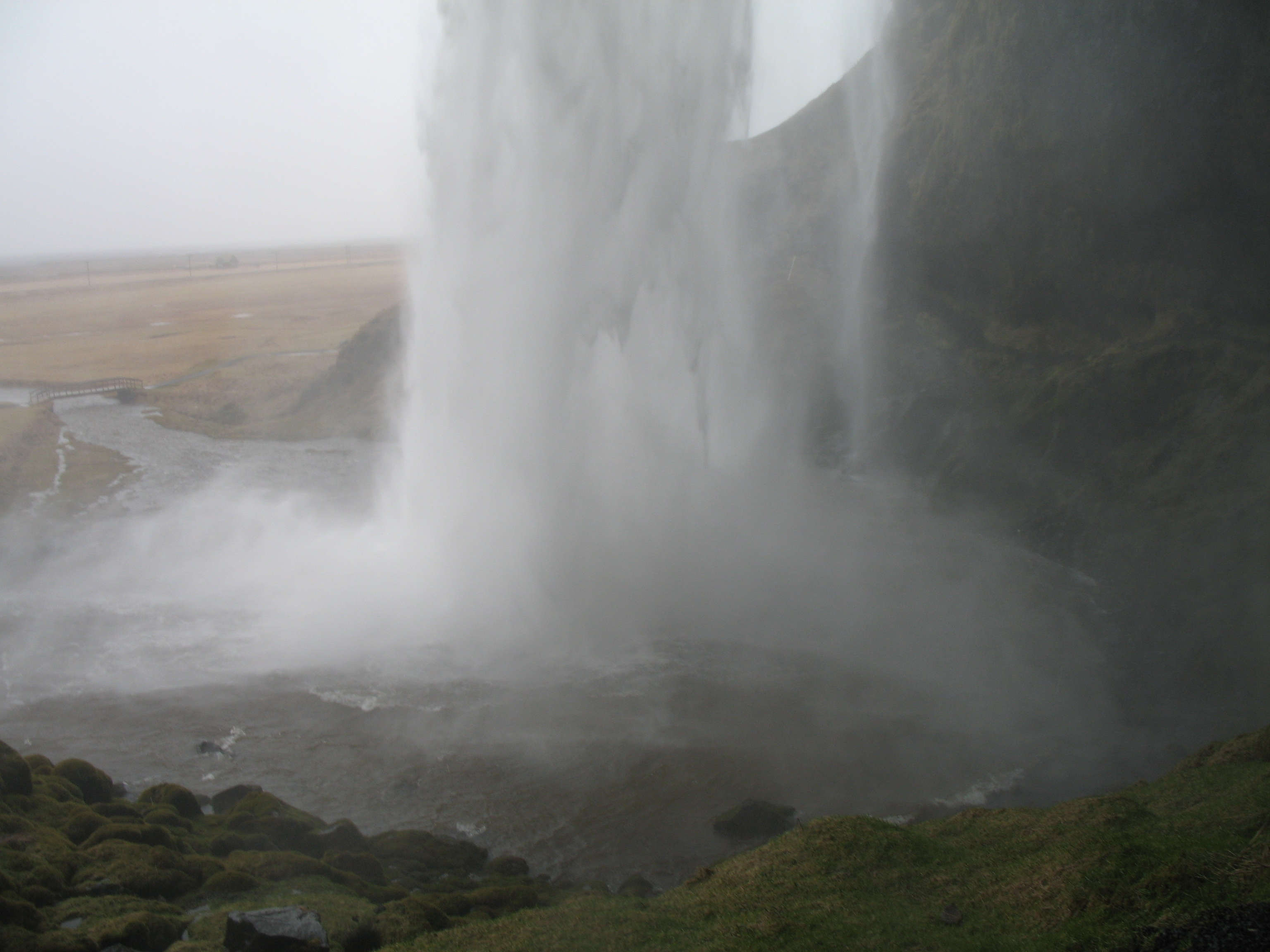 Photo showing the plunge pool of Selandjafoss, a waterfall in Southern Iceland